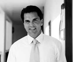 Donna Welles uploaded this file from her personal photo library. It is given to Wikipedia for its use however it sees fit.